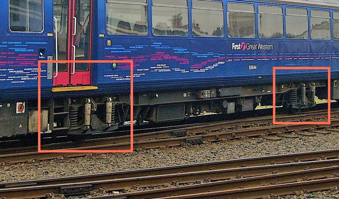 Class 143 Underframe showing rigid twin axle layout